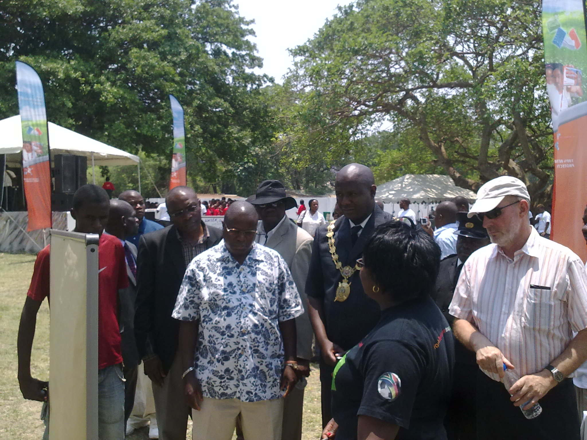 Mr. Peter Lubamo, the director Ministry of housing, water supply and sanitation(printed white shirt), Mr. Daniel Chisenga (black suit) His Worship the Mayor of Lusaka, Ms. Nora Chansa and Mr. Eberhard Goll from GTZ.